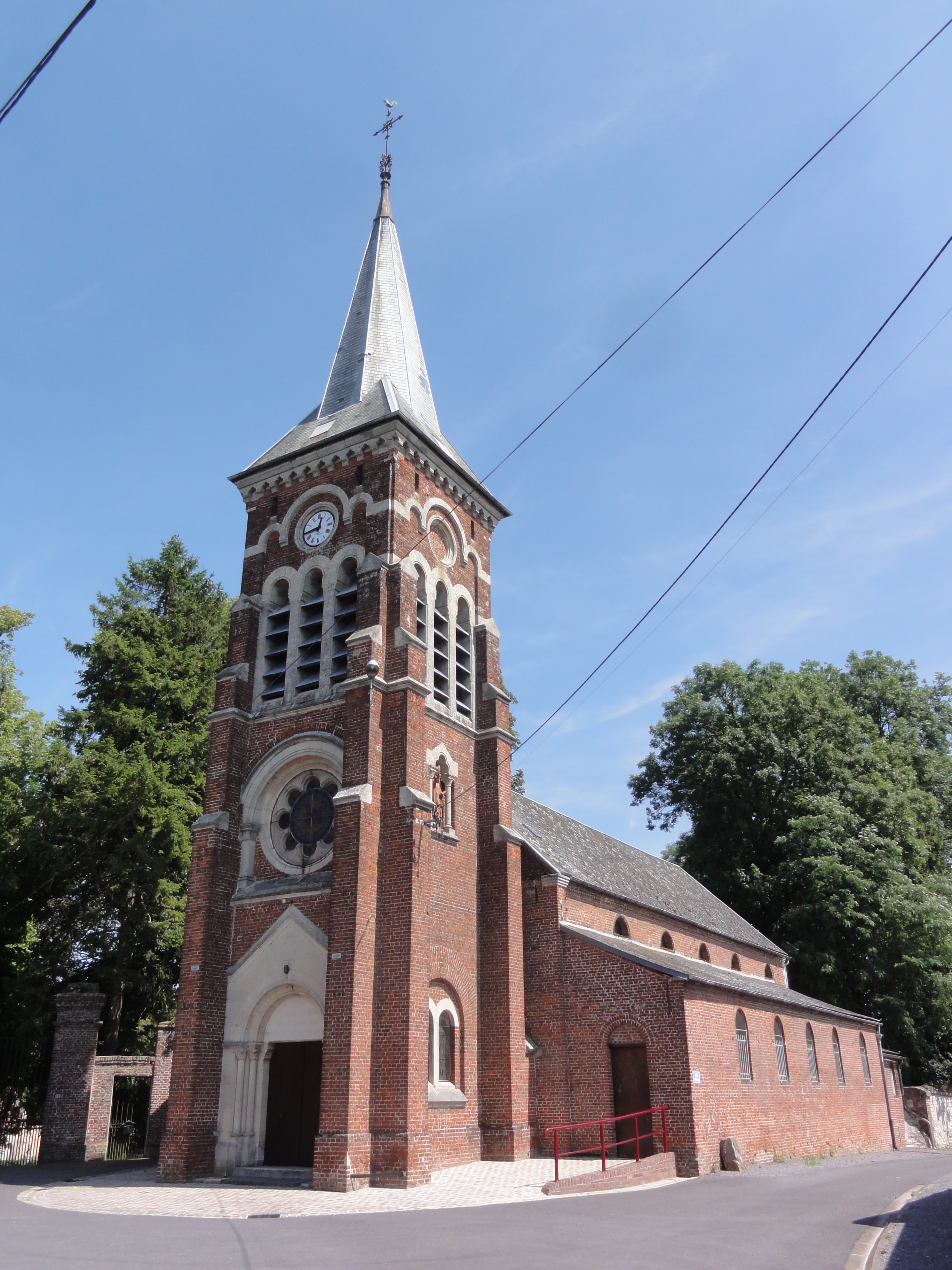 Landifay-et-Bertaignemont (Aisne) église